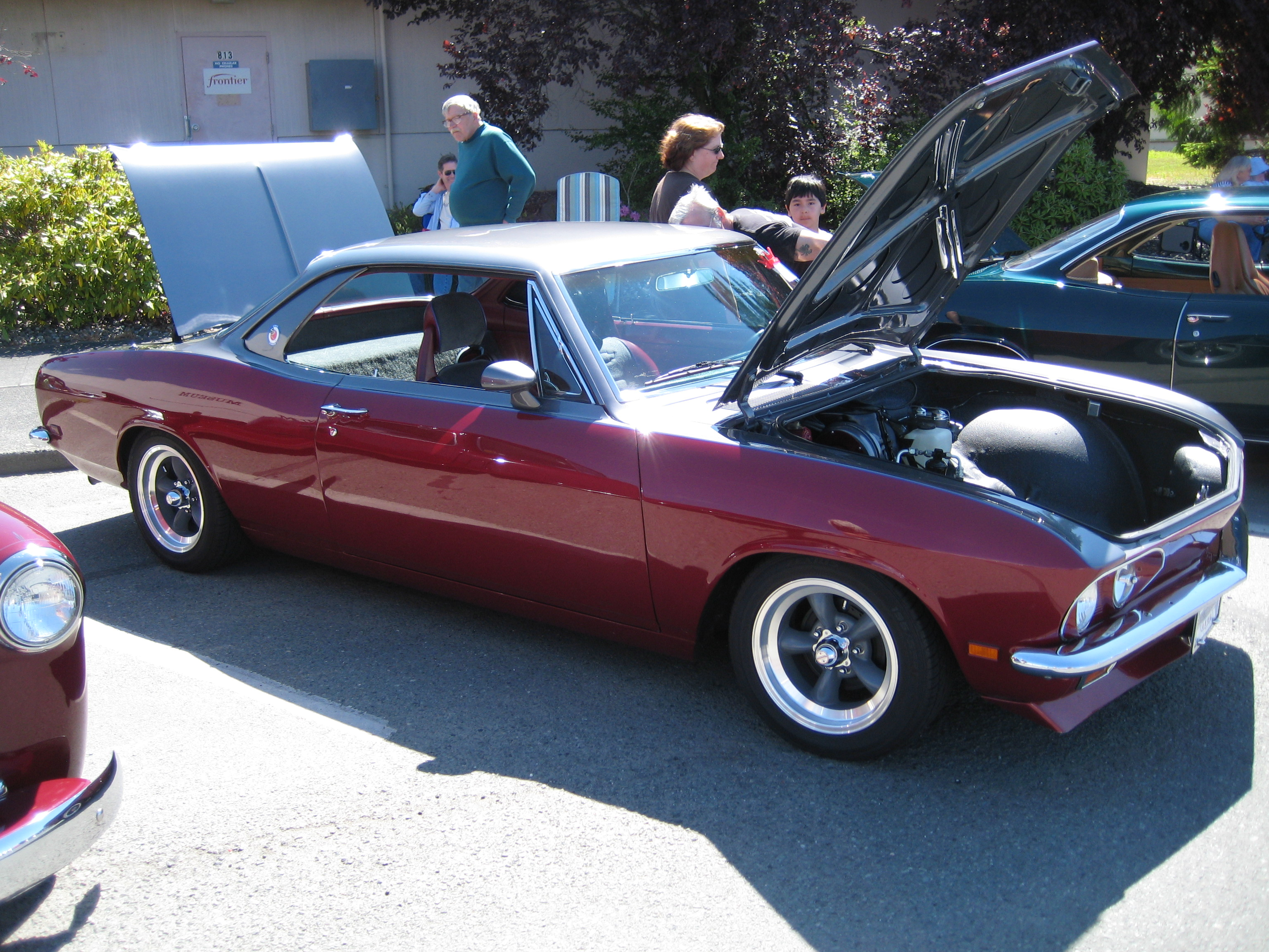 Corvairs appear to be staging a comeback. Some nice ones are showing up at car shows.